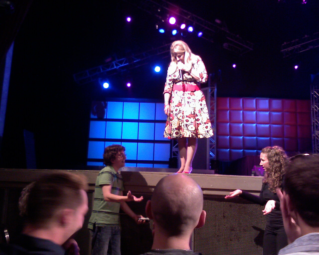 Lisa Lampanelli on stage making fun of an audience member.